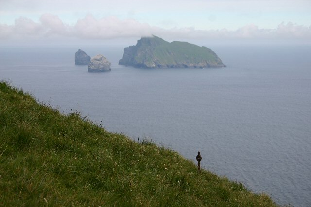 Roping peg, St Kilda. The St Kildans used to climb down the sheer cliffs to retrieve fulmar chicks and eggs; this peg, close to the steep cliffs of Conachair, may have been used to anchor the ropes. In the background is Boreray and Stac Liath (Lee) and Stac an Armainn.